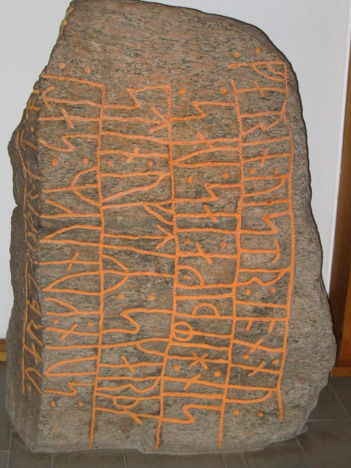 Front view of the Skarthi runestone